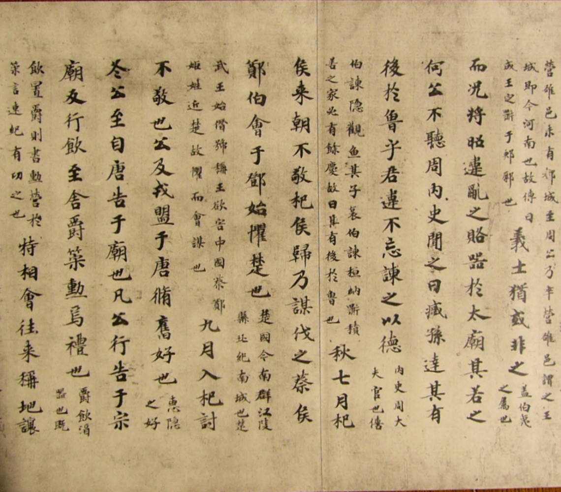 Manuscript handscroll of Du Yu’s Critical study of Spring and Autumn Annals and Zuo Zhuan, Fragment of volume 2, Ink on paper, 7-8th century, Tang Dynasty, China. Now located at the Fujii Saiseikai Yurinkan Museum, Kyoto, Japan